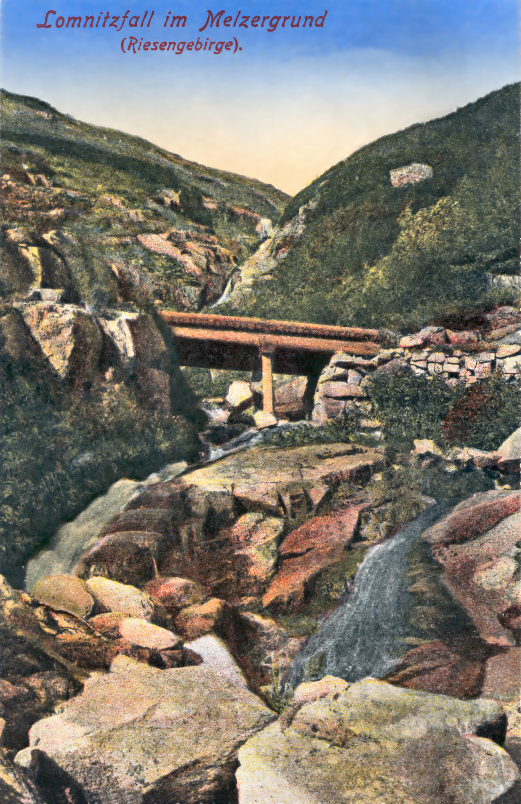 Łomnica Waterfall, Karkonosze, Germany now Poland.